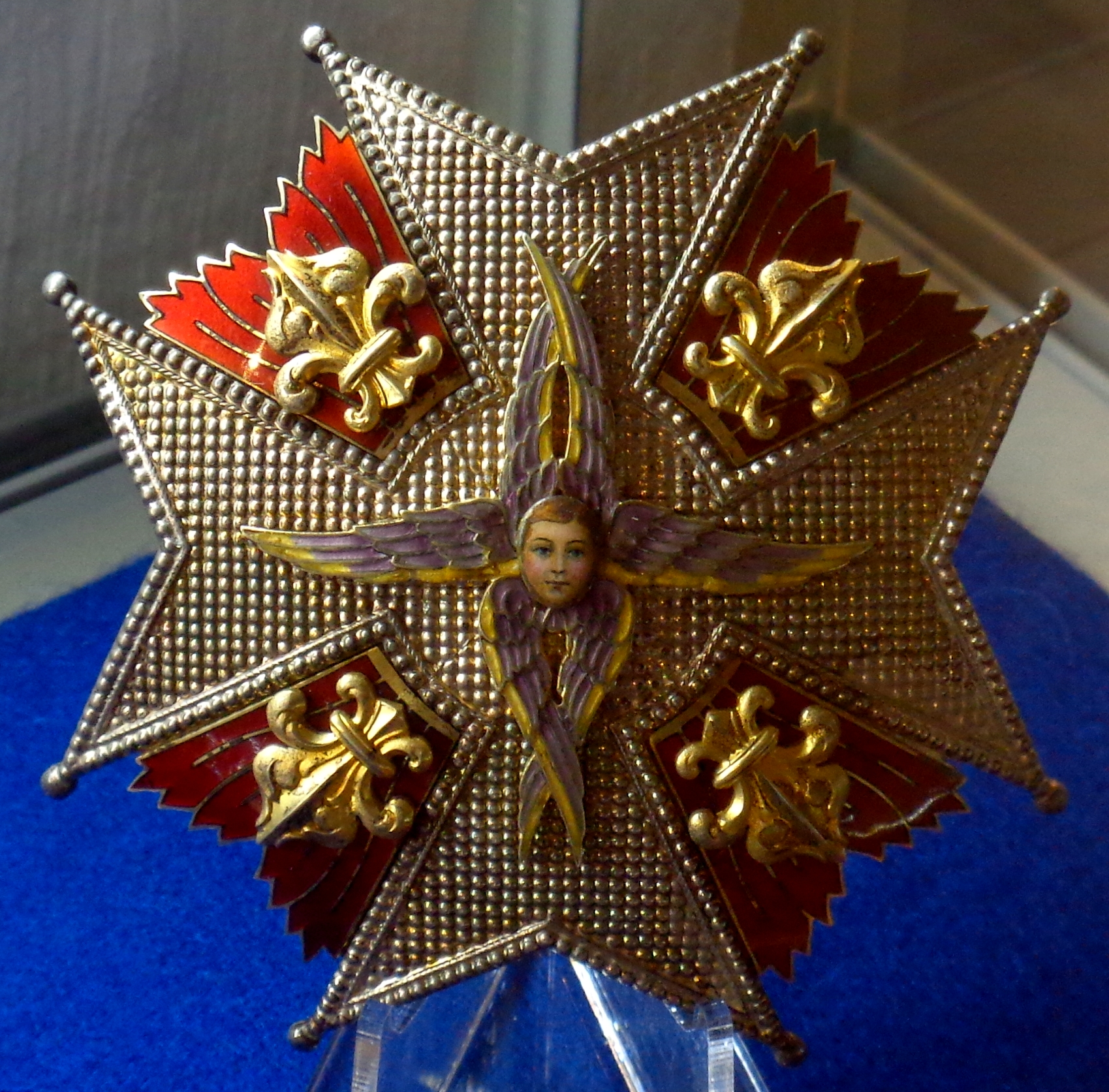 Order of Saints Equal to Apostles Cyril and Methodius, star, 1920-1930. Kingdom of Bulgaria. The exhibition of the Tallinn Museum of Orders of Knighthood, Estonia.